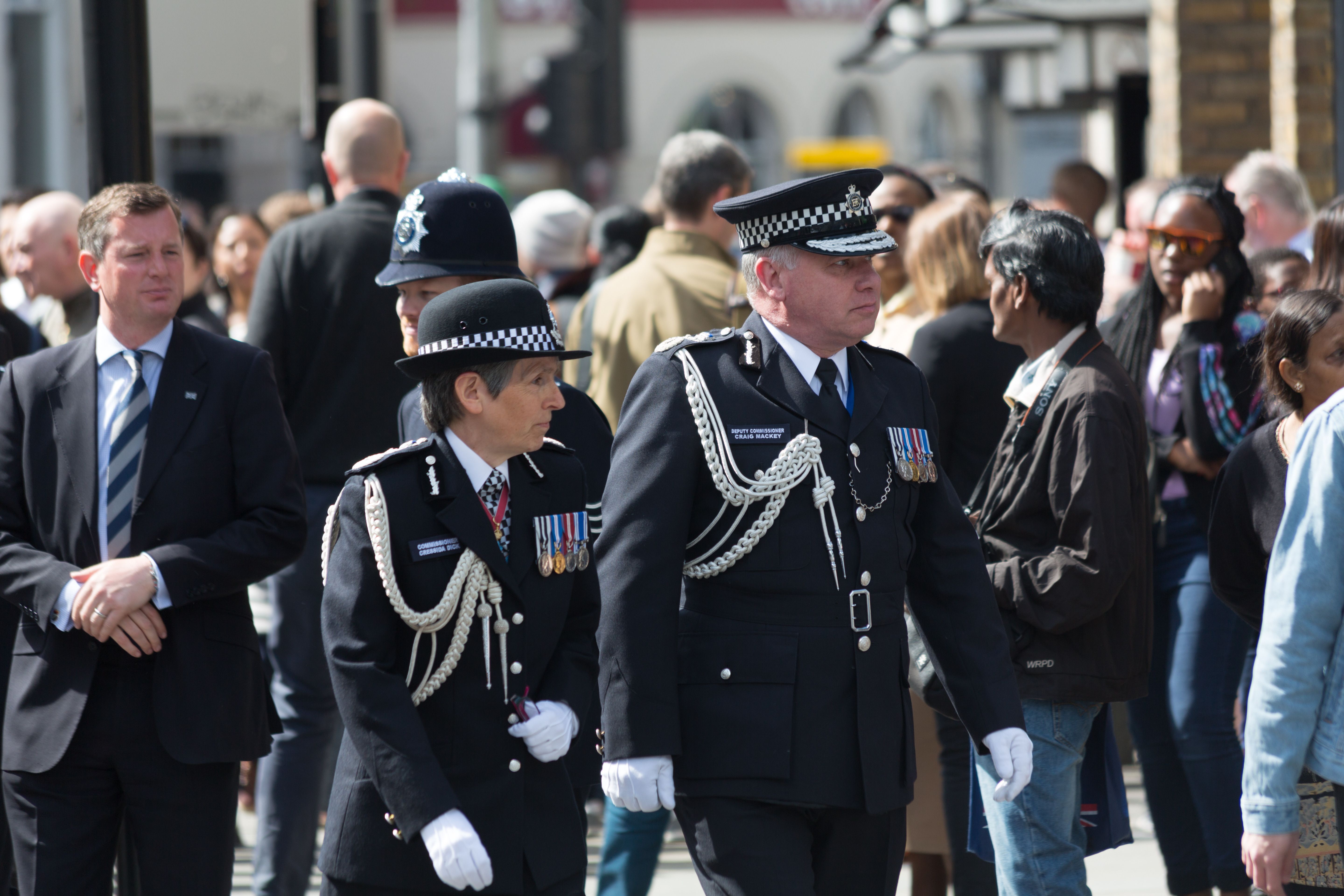 Funeral procession of Keith Palmer